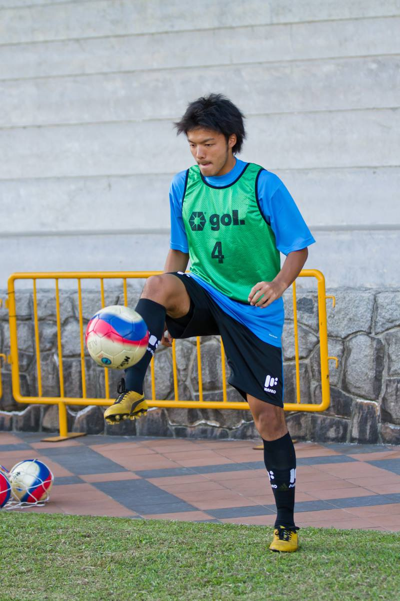 Yoshinaga Arima warming up in a friendly match against Woodlands Wellington at Woodlands Stadium on 29 January 2014.